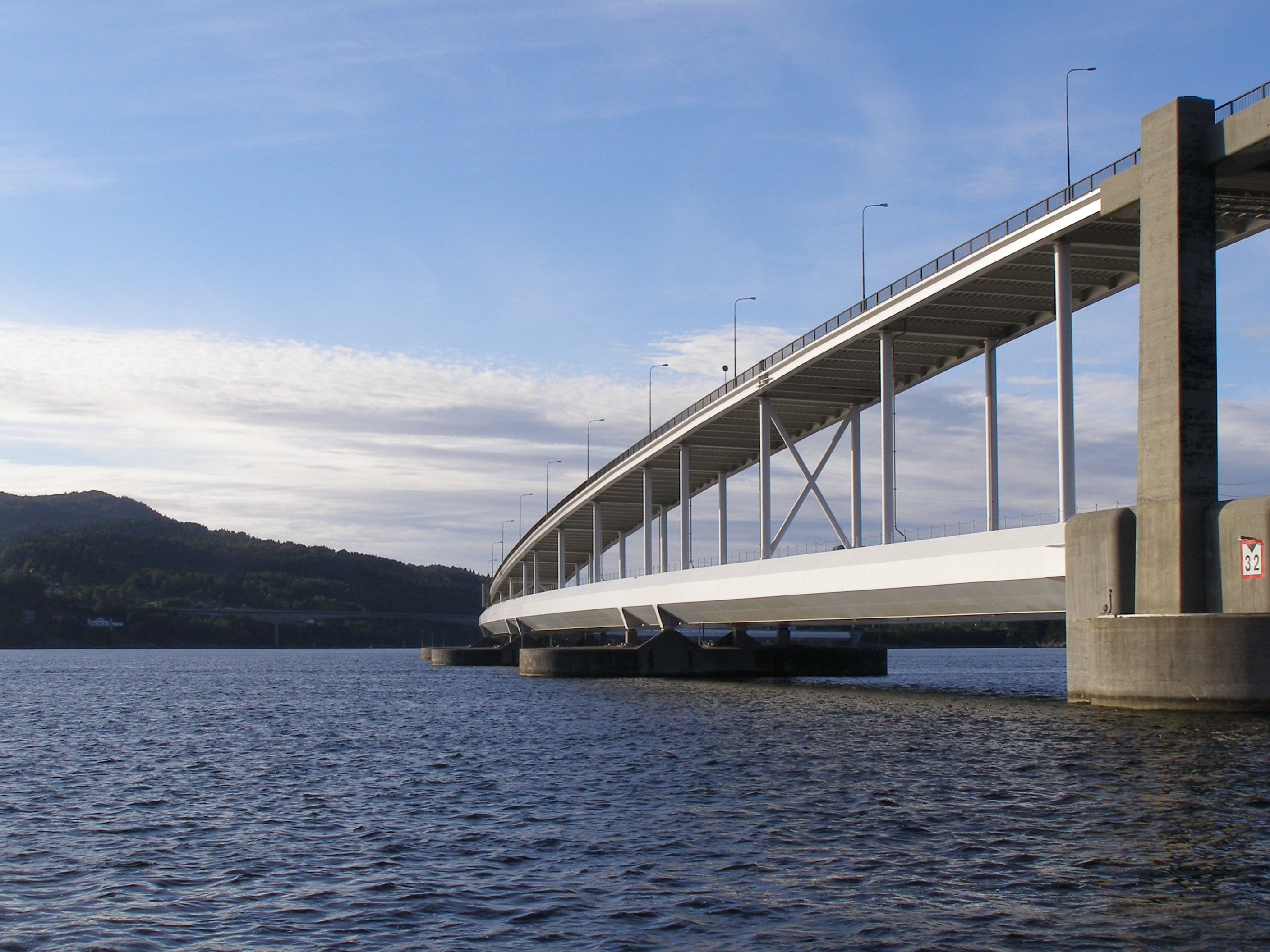 Nordhordland bridge